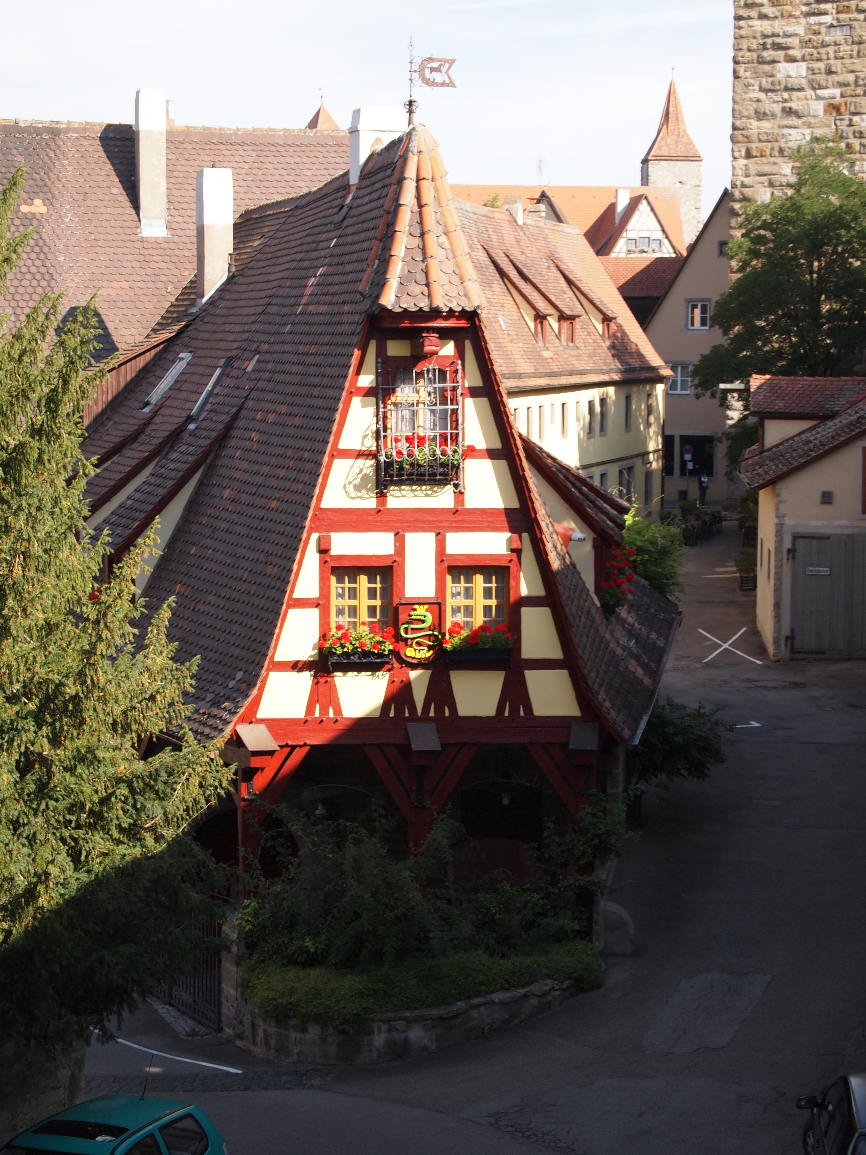 Alt-Rothenburger Handwerkerhäuschen